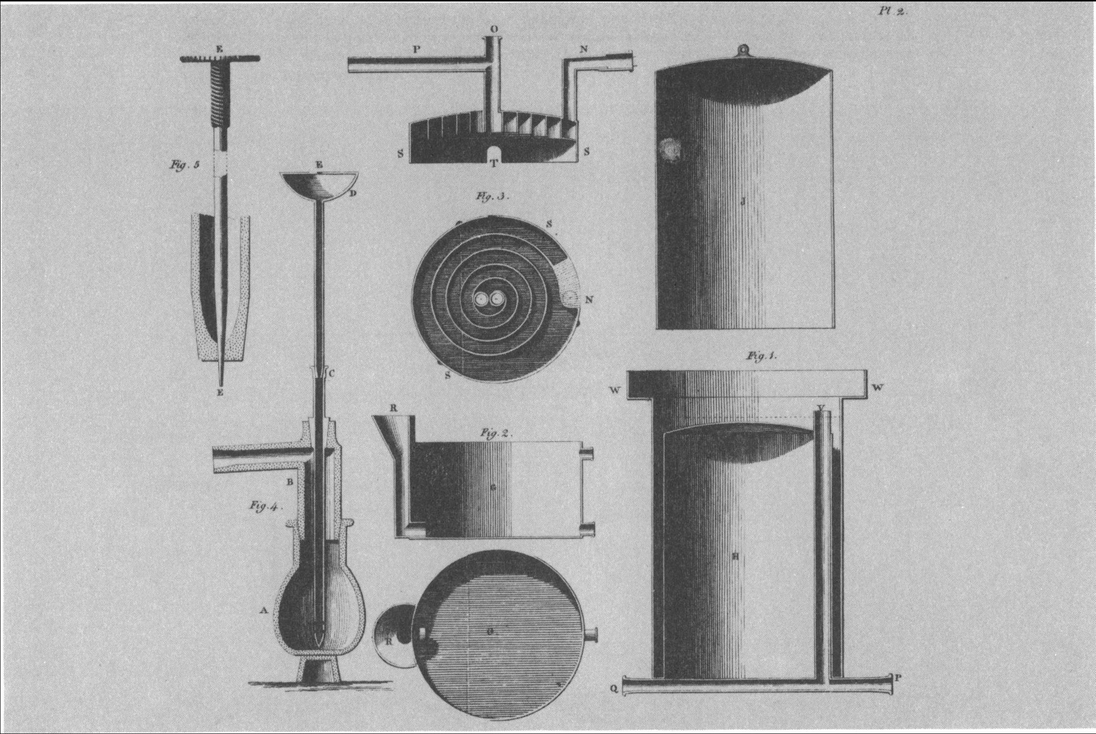 Scientific paper with diagrams.